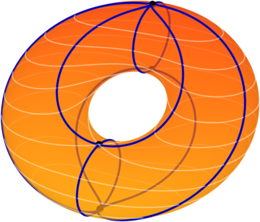 Flow lines for the height function on a tilted torus, showing that the height function is Morse-Smale. Selfmade with Mathematica.